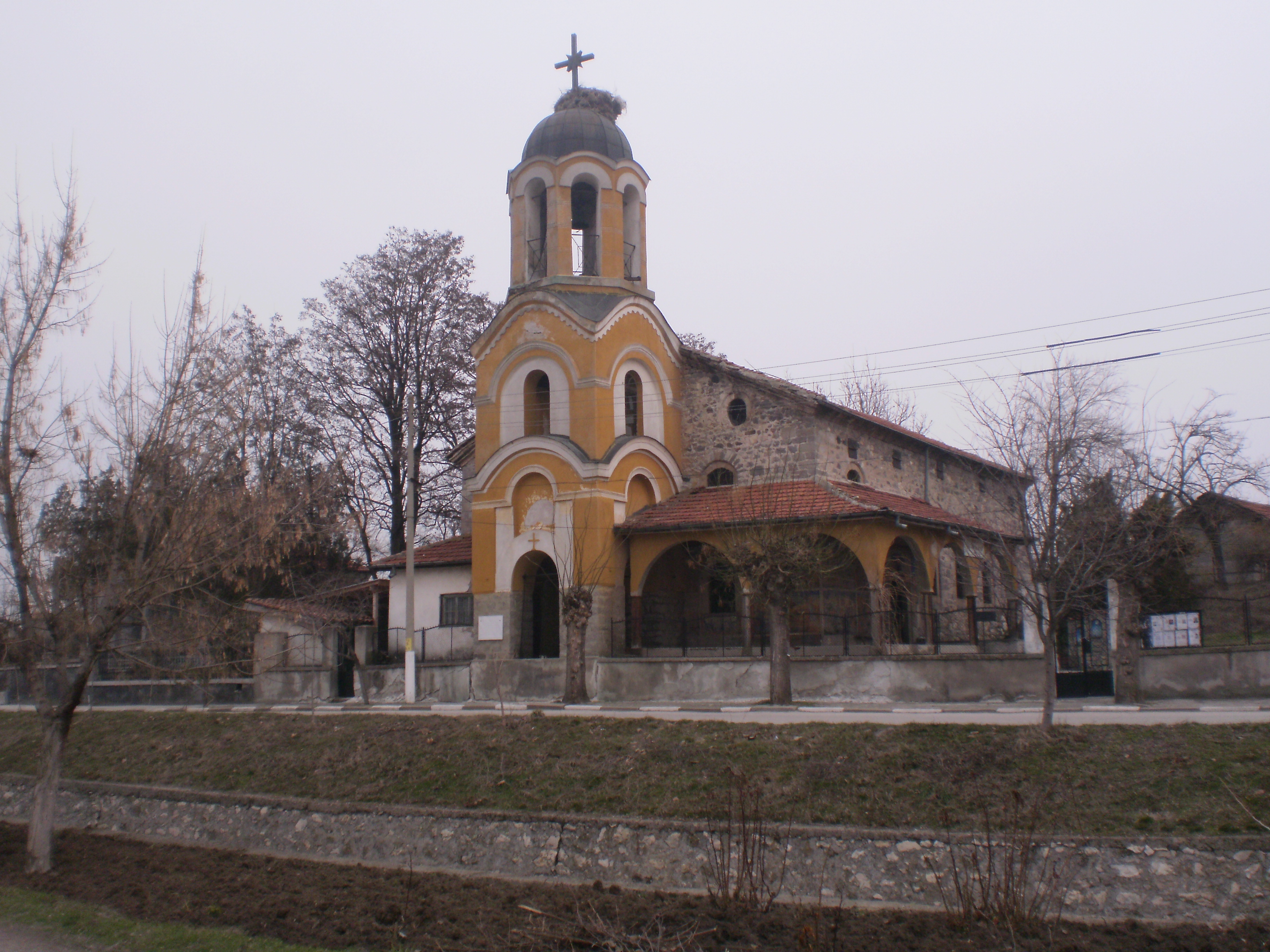 Църква с.Конуш